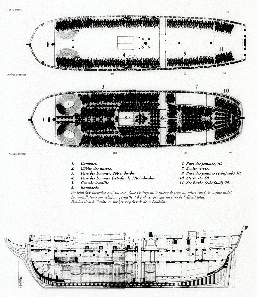 Retouched version of Image:Slavetrade2.jpg, which has the following description